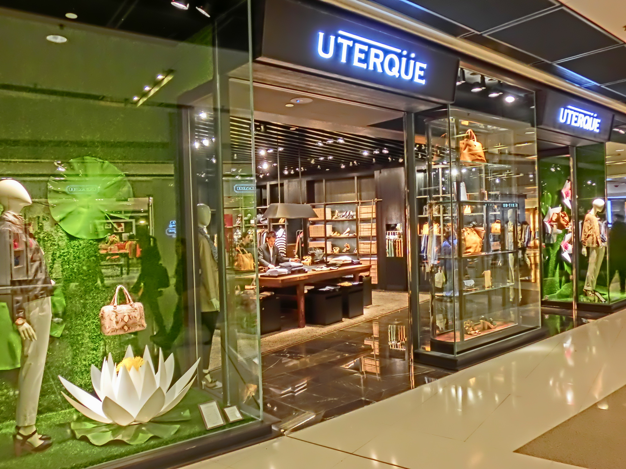 國際金融中心商場, IFC Mall, Central, Hong Kong